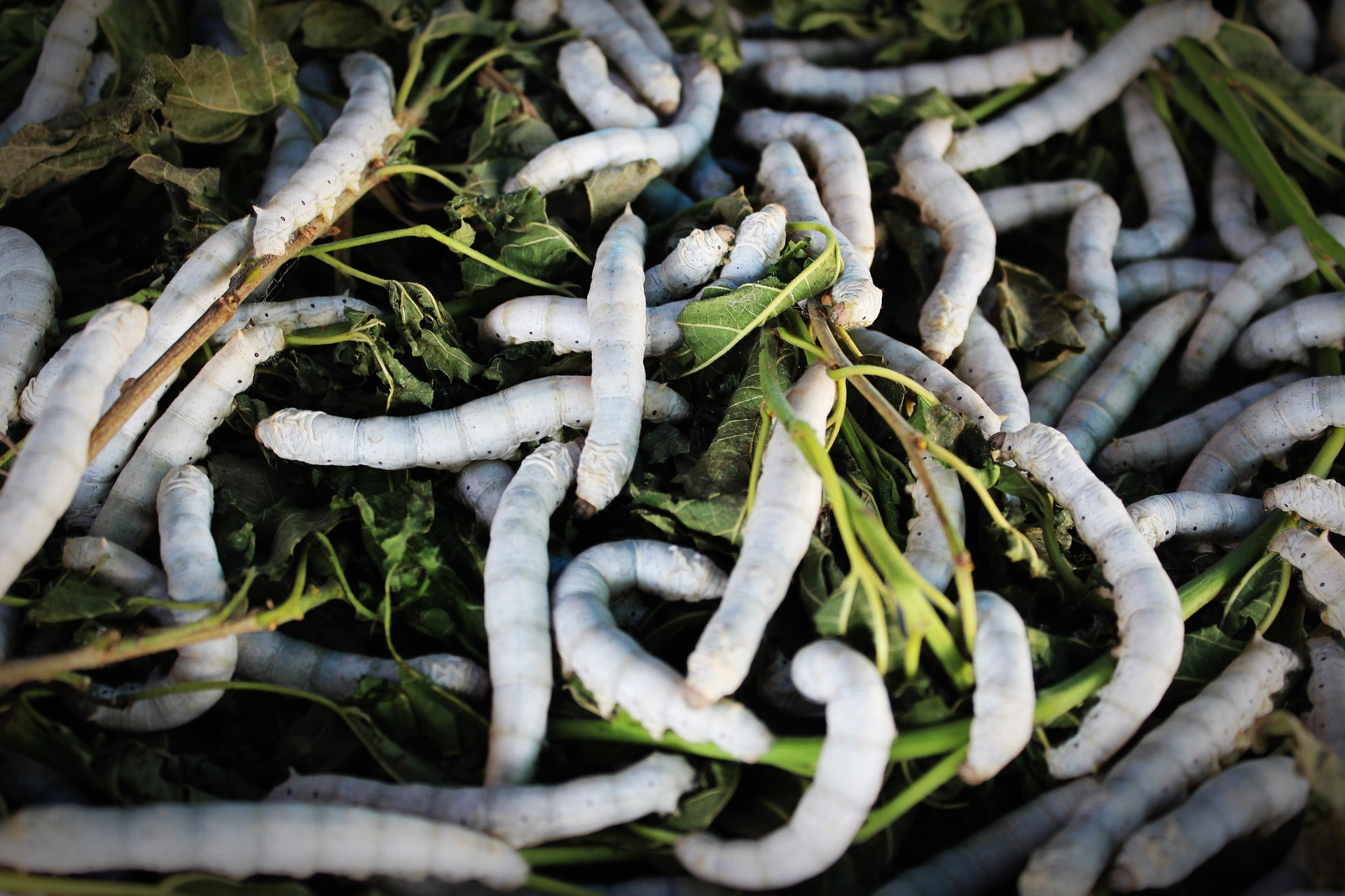 Cuc de seda